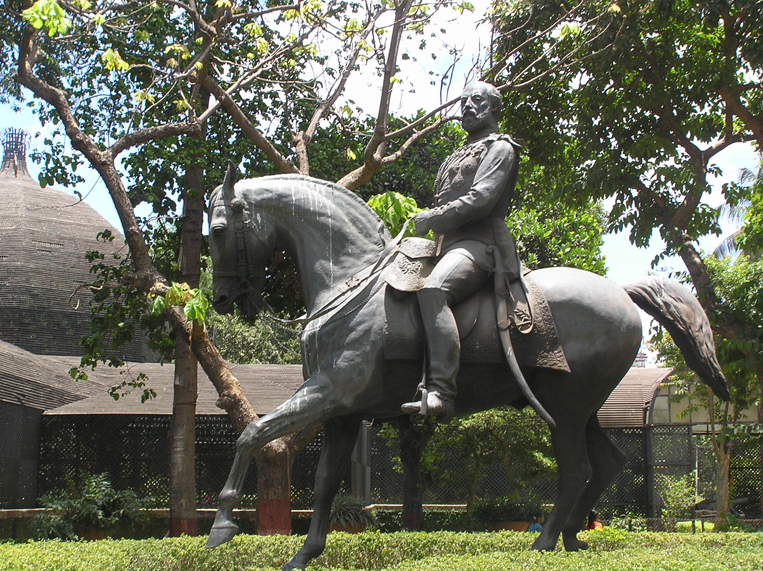 Kala Ghoda. Statute of King Edward VII riding a horse. Now placed at the Jijamata udyan in Byculla, Mumbai.